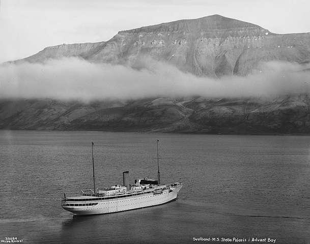 Norwegian cruiseship MY Stella Polaris built in 1927. Norsk (bokmål): Turistskipet MY «Stella Polaris», bygd i 1927. Bildet er tatt i Adventbukta på Svalbard